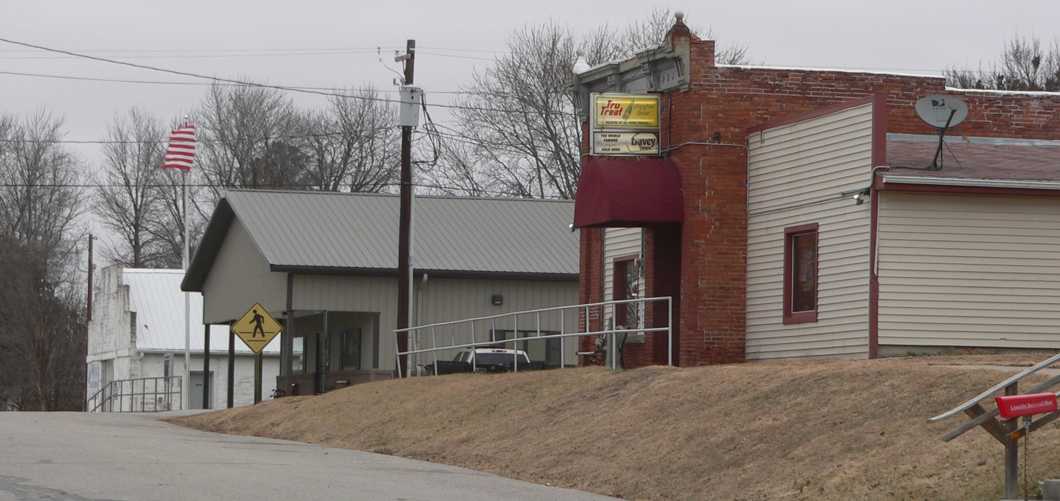 Downtown Davey, Nebraska: 2nd Street, looking northeast.